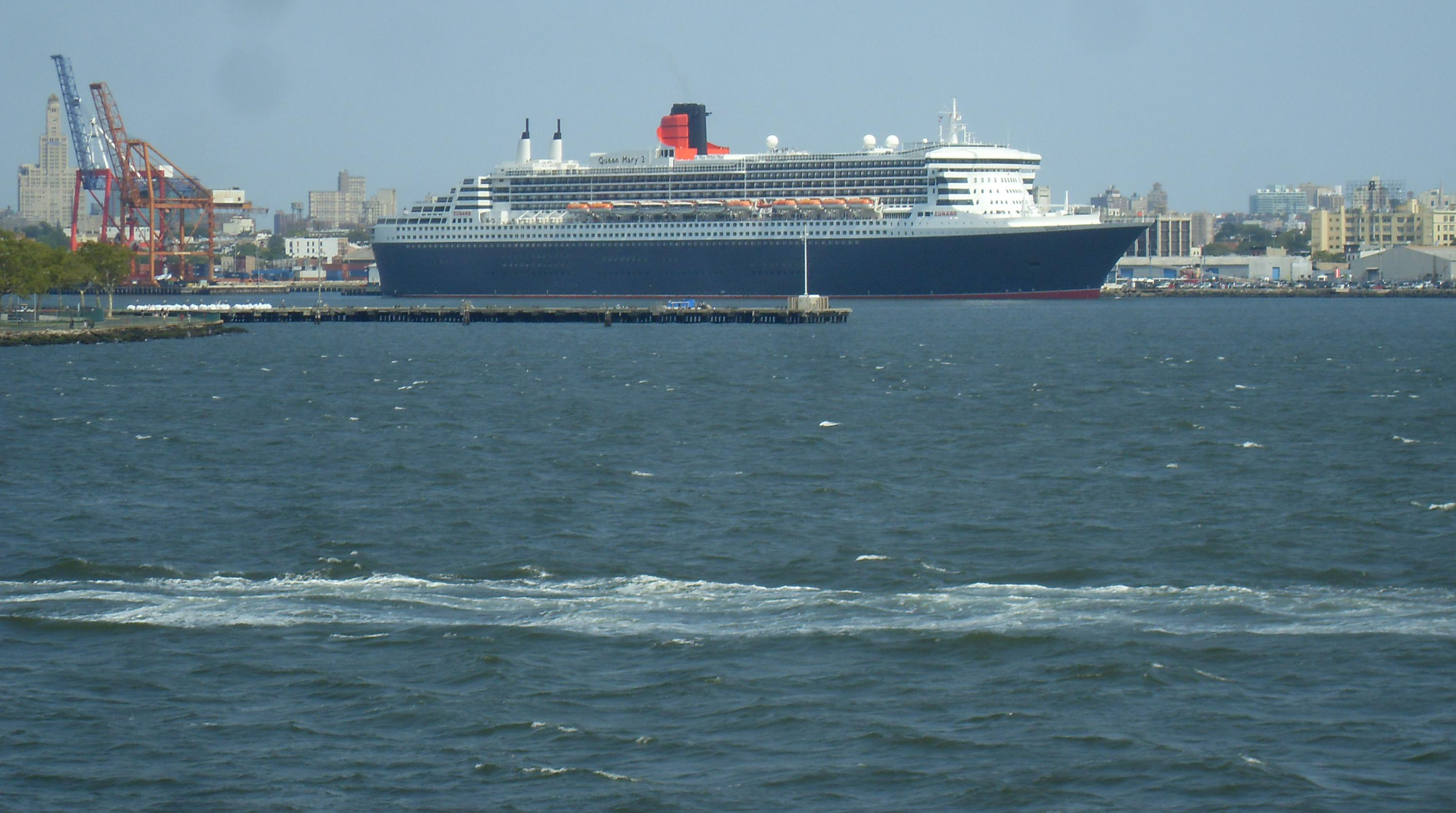 QM2 in NY 08.2008